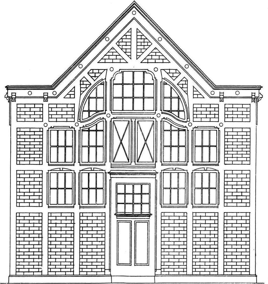 Canteen West-Indian Mail Service, De Ruyterkade, Amsterdam.